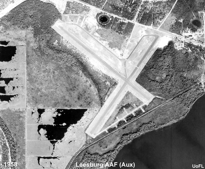 Leesburg AAF Florida (Auxillary Airfield)